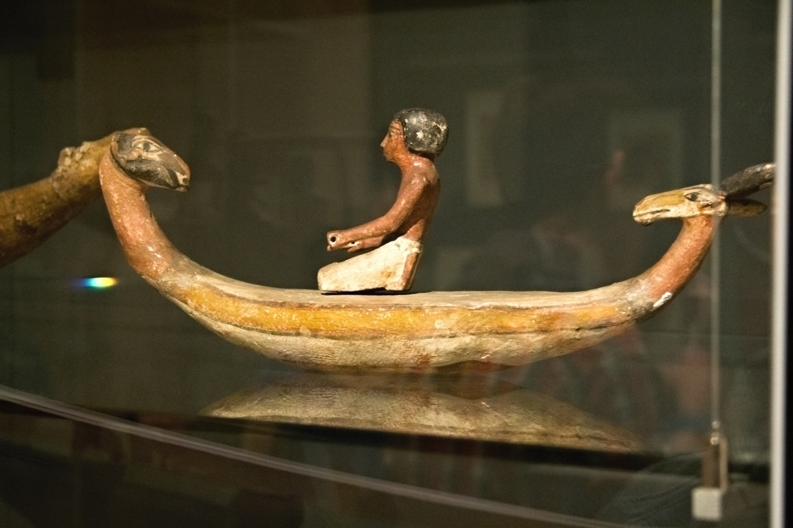 Model of boat. Wood, polychrome. Egypt, Middle Kingdom. NG Prague, Kinský Palace, NM NpM P 2.